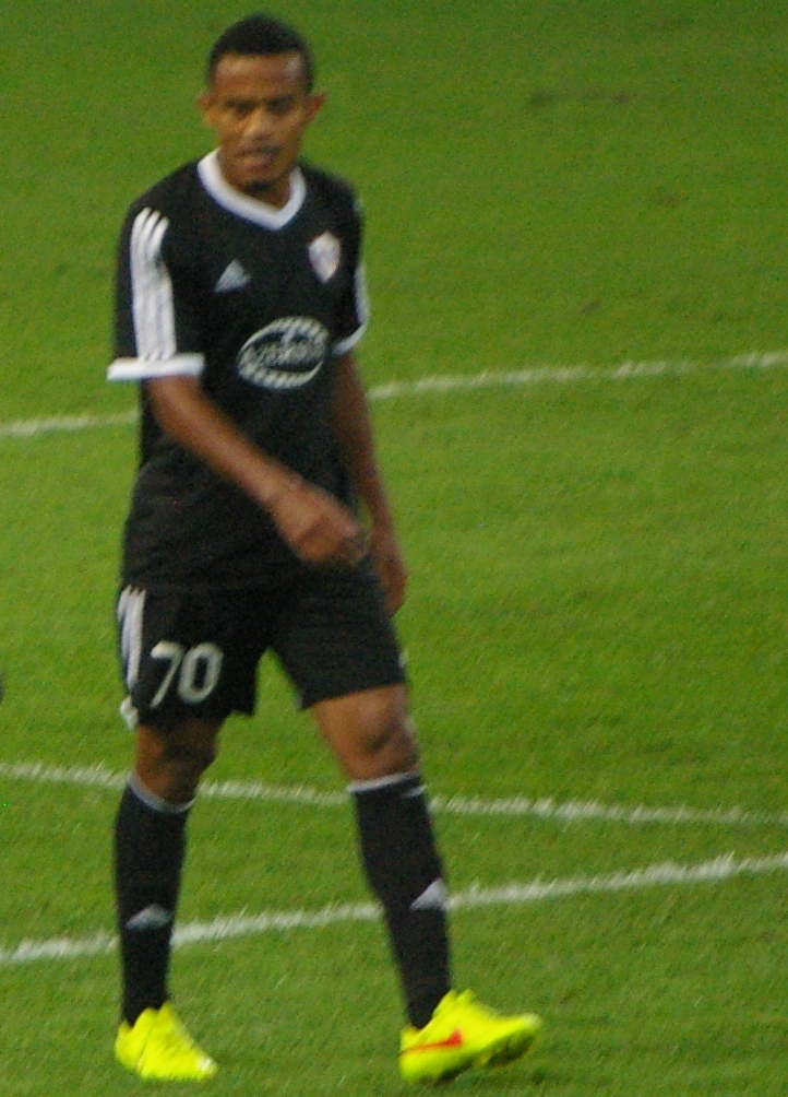 Chumbinho in 2014